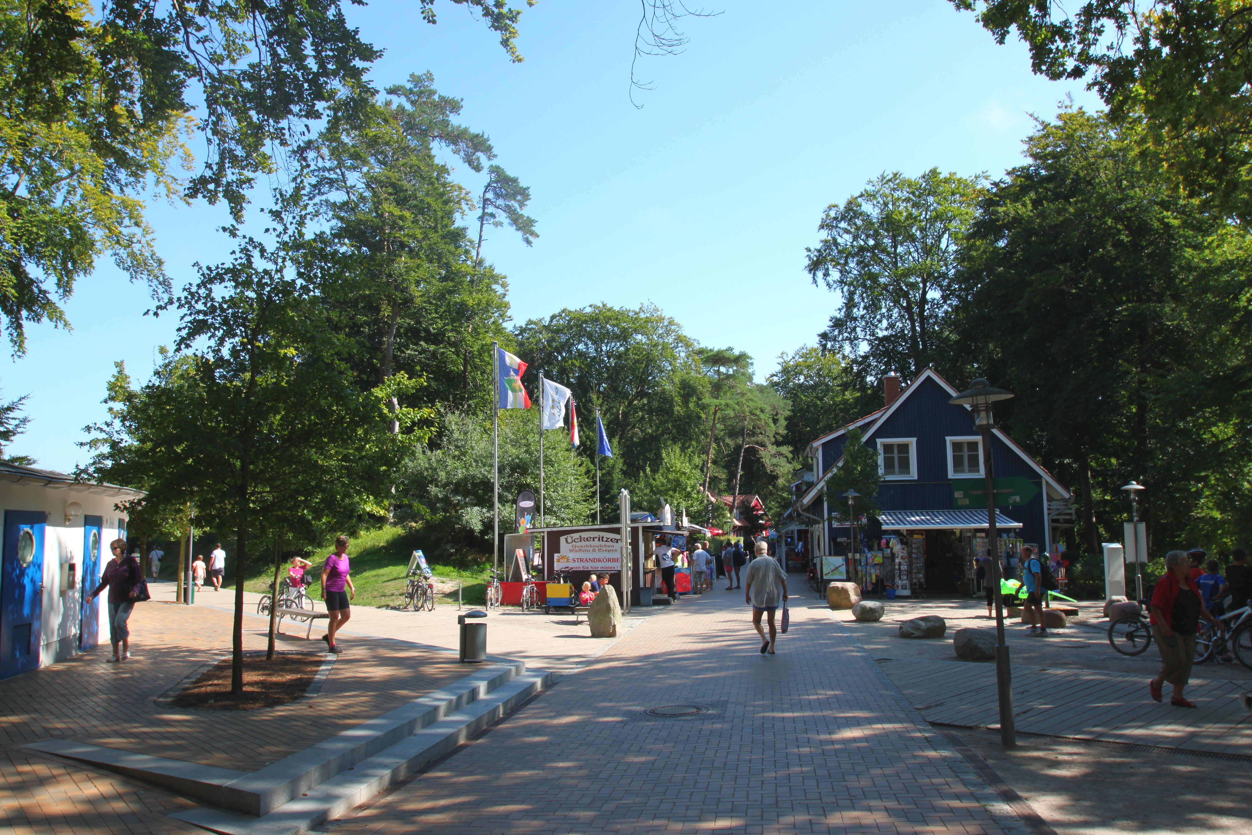 View to Uferpromenadeto of Ückeritz